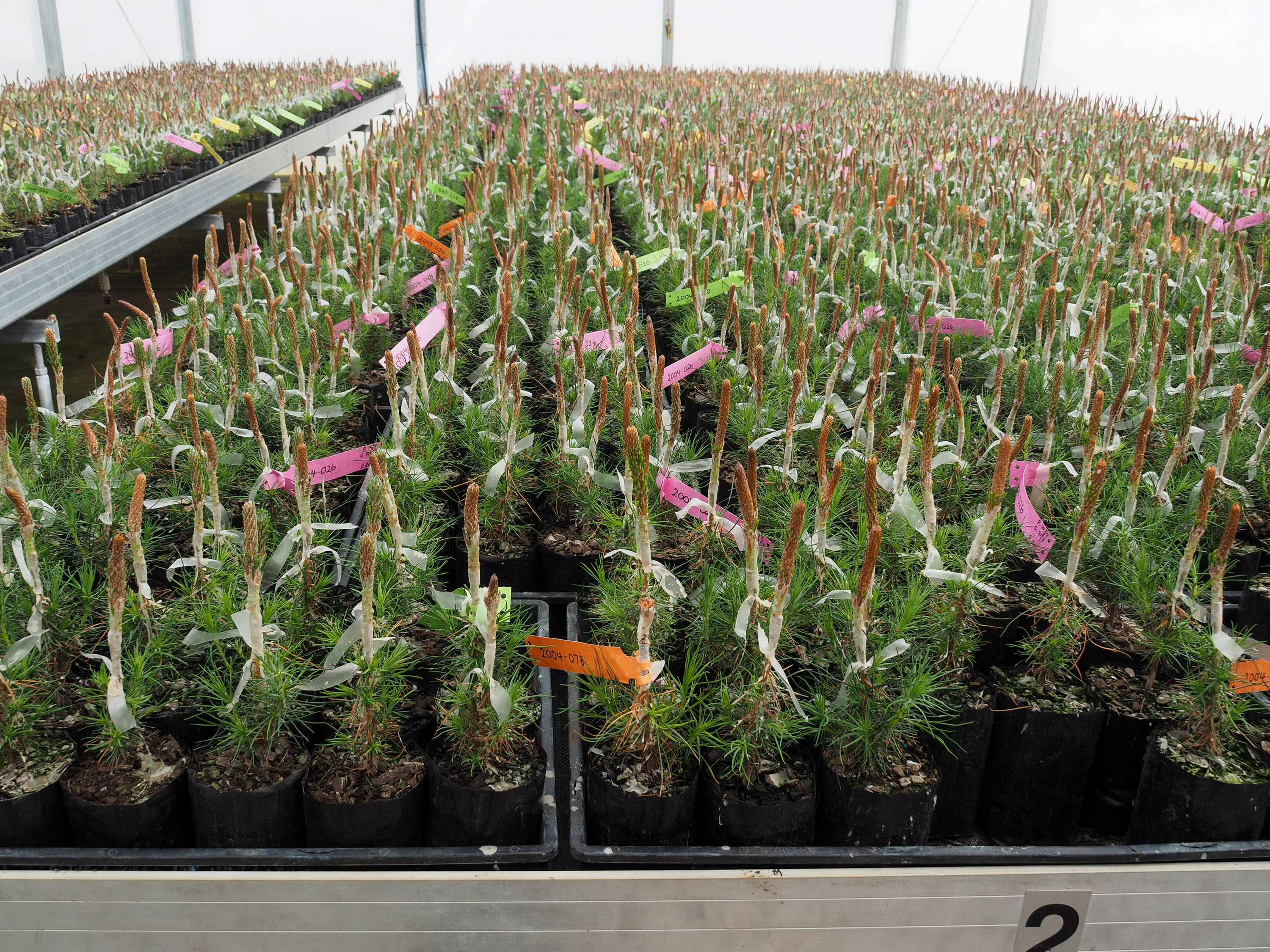 Hundreds of Radiata pine (Pinus radiata D Don) grafts in a glasshouse, in preparation for the establishment of a seed orchard.